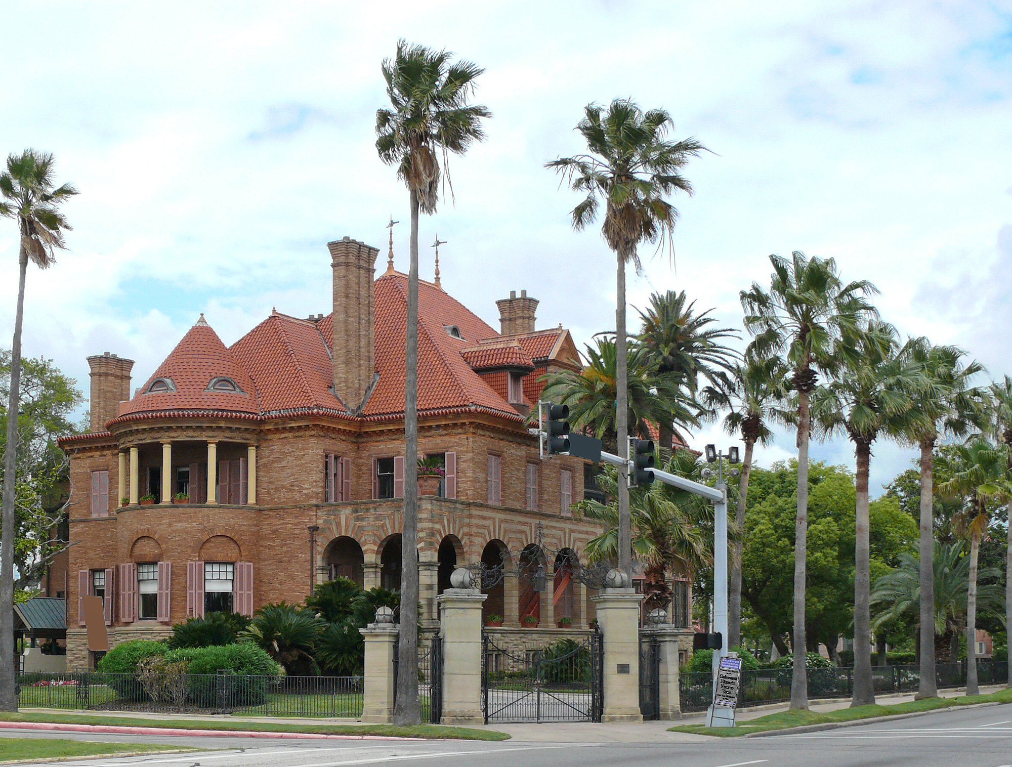 George Sealy was a prominent early Galveston entrepreneur. George and Magnolia Sealy's neo-Renaissance mansion was completed in 1891 and is thought to be the only building in the South designed by Stanford White. Their luxurious home, Open Gates, became a center of Galveston business and social life. According to family legend, the construction of the landmark mansion was instigated by a statement made by Magnolia after the birth of the couple's fifth child in 1885, "Sir, I'll give you a second son, if you'll build me the finest home in Galveston." An elaborate carriage house, designed by Galveston architect Nicholas Clayton, was finished the same year the couple's second son was born.